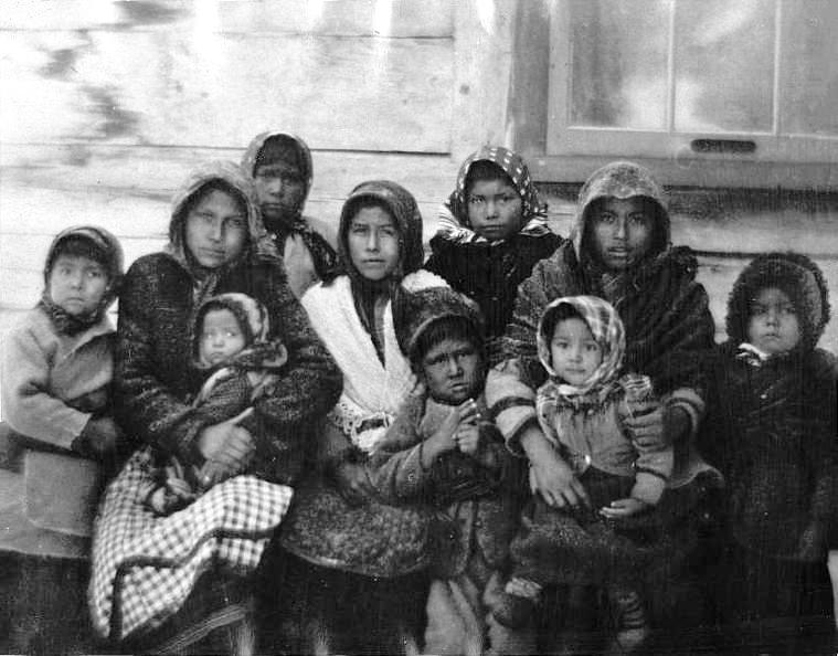 Photograph, Aboriginal children, St. Maurice River (Tapiskwan Sipi), QC, about 1900, Anonymous, Silver salts on paper mounted on card - Albumen process - 9 x 12 cm